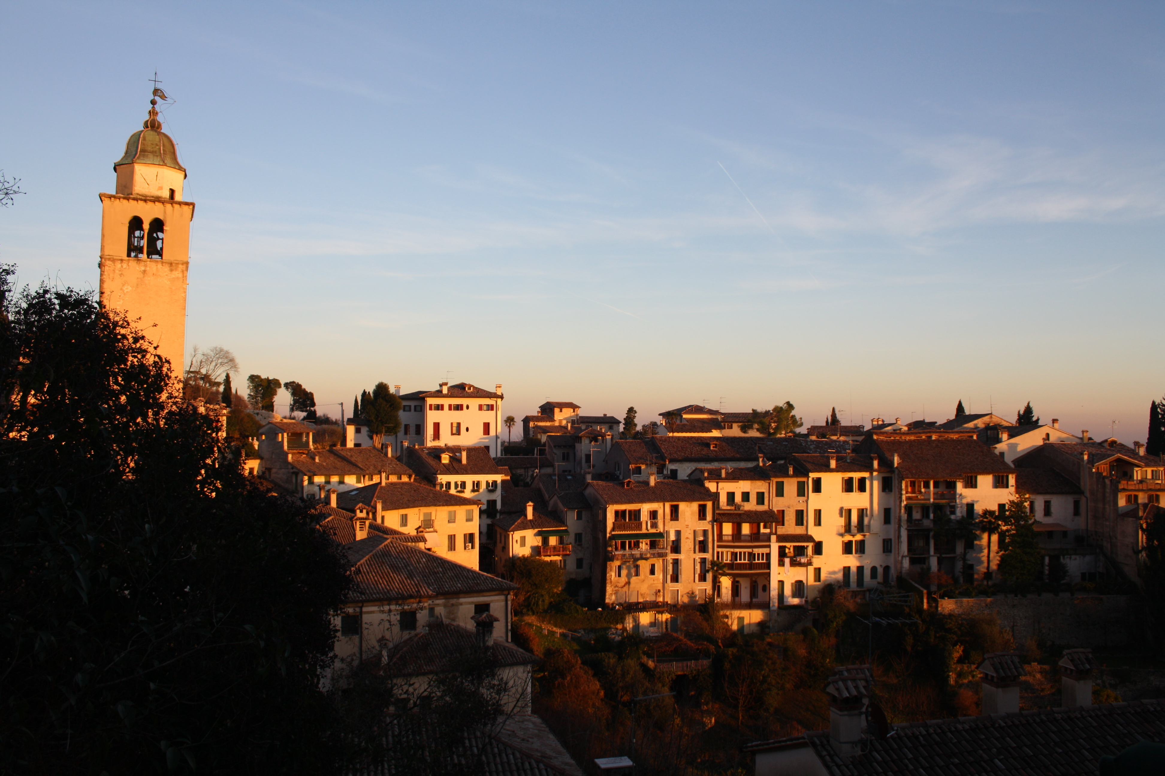 31011 Asolo, Province of Treviso, Italy